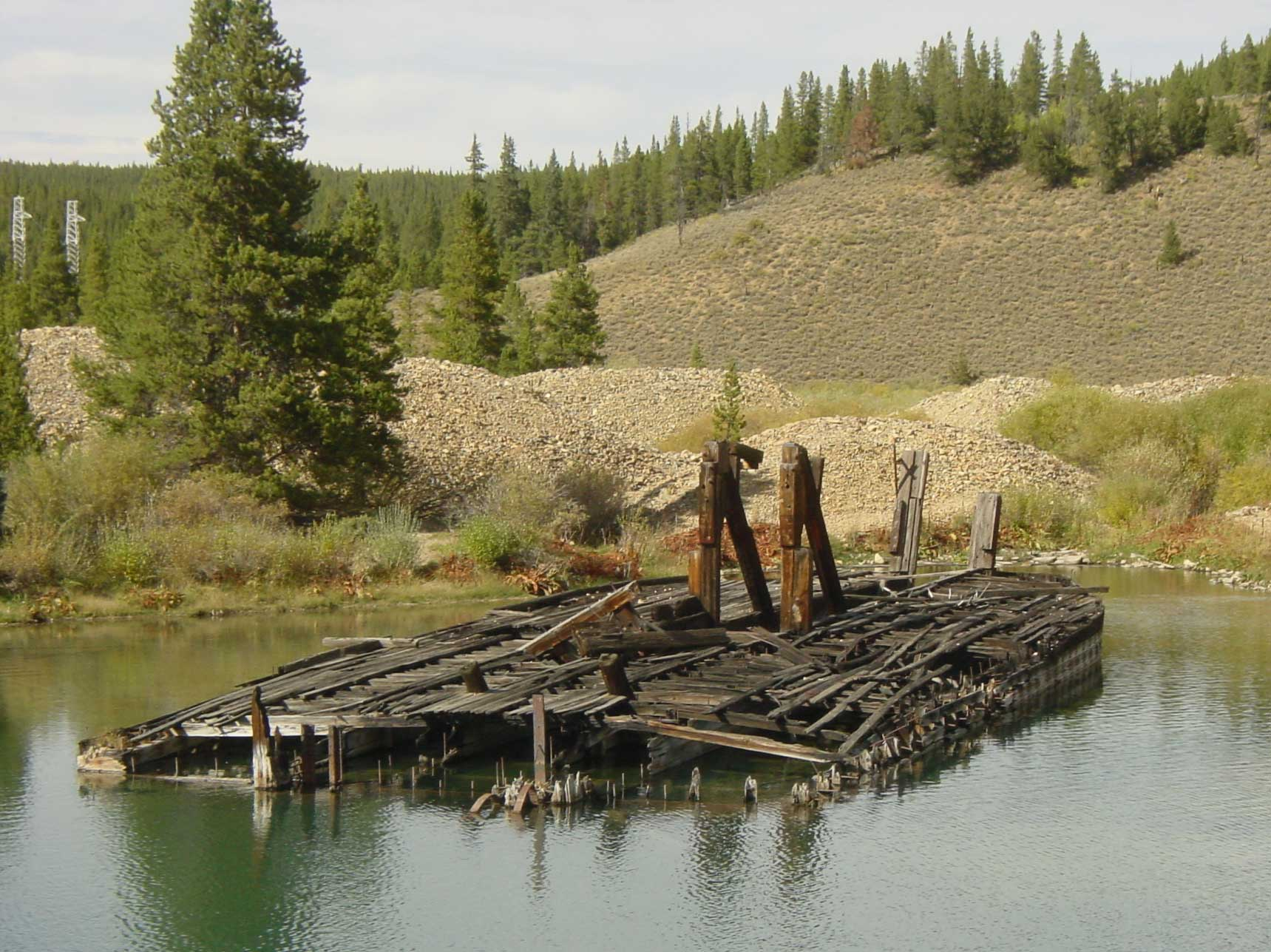 Remains of the Swan River gold dredge, Summit County, USA.